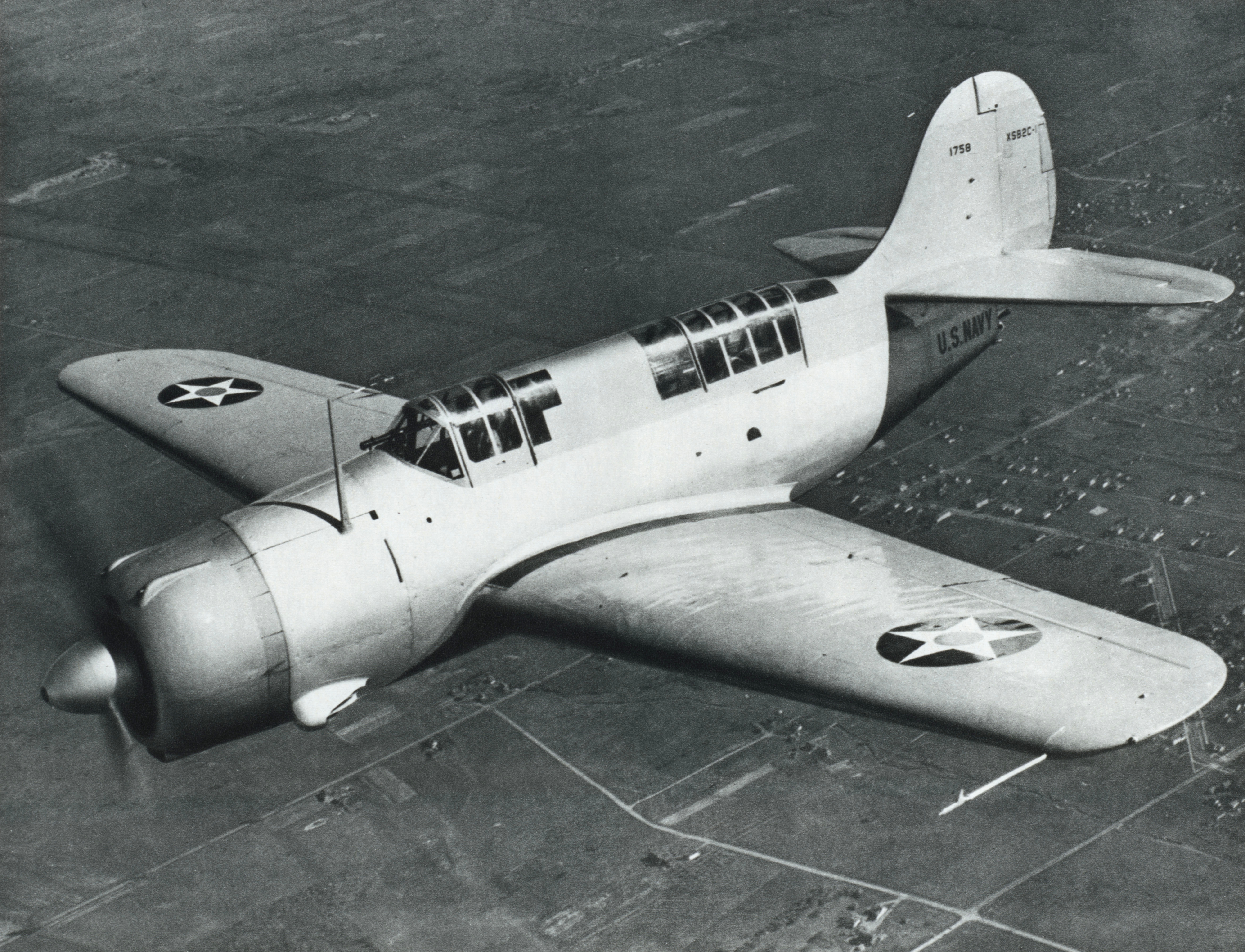 The U.S. Navy Curtiss XSB2C-1 Helldiver prototype (BuNo 1758) during a test flight. The aircraft made its first flight on 18 December 1940 but crashed on 8 February 1941 due to an engine failure during a landing approach. It sustained damage to the fuselage but was repaired. It was destroyed after suffering an inflight wing failure on 21 December 1941.